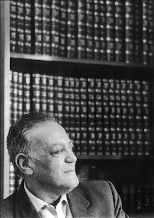 Portrait of Iranian scholar and Islamic historian, Dr Seyed Jafar Shahidi. President of the Dehkhoda Lexicon Institute and Founder of the International Centre for Iranian Studies.